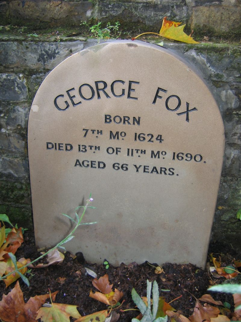 The burial marker for George Fox in Bunhill Fields Quaker Burial Ground next to Bunhill Fields Meeting House, 26 Grafton Terrace, LONDON NW5 4JJ.